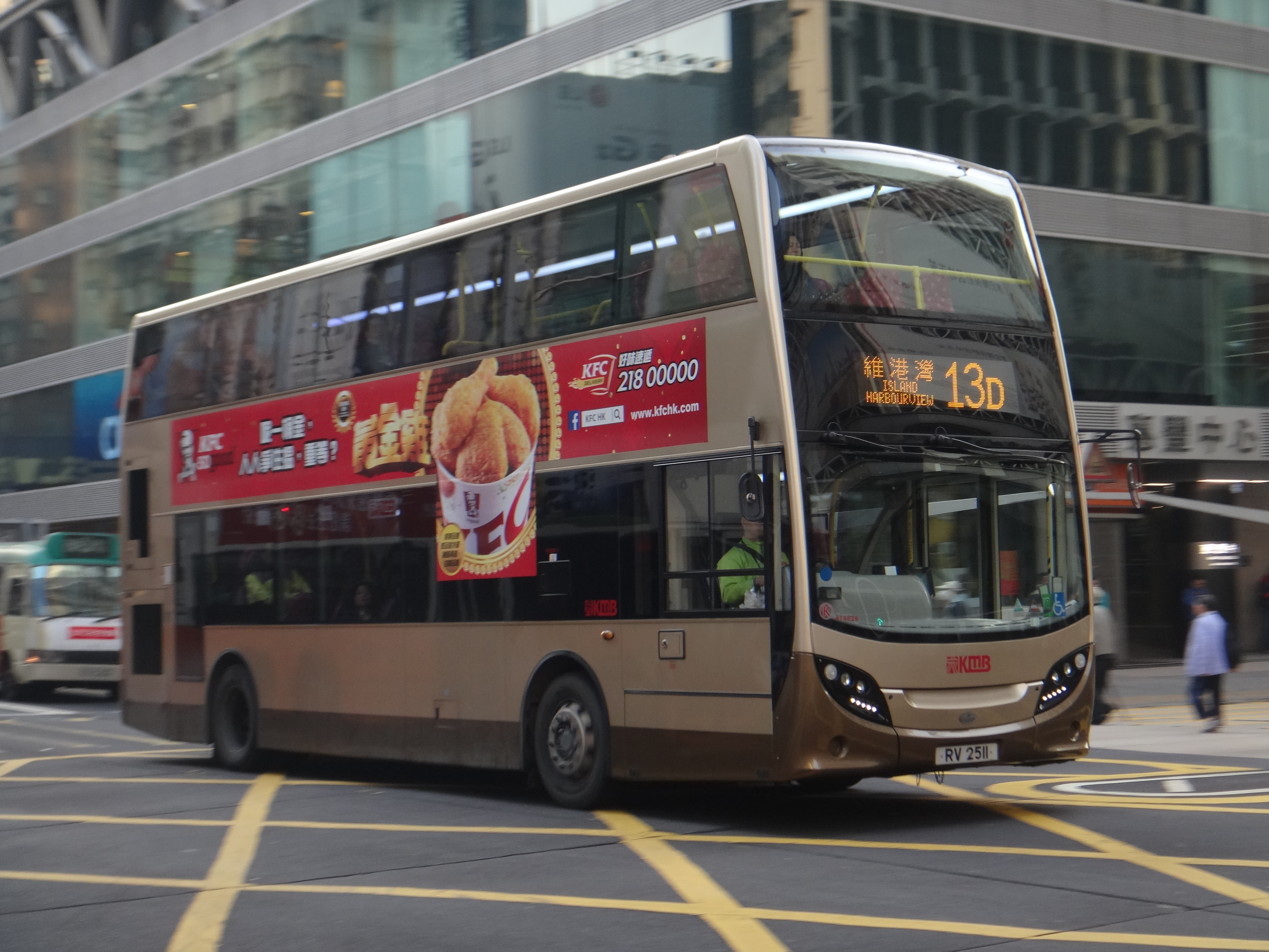 An Alexander-Dennis Enviro400 operated by Kowloon Motor Bus in Mong Kok, Kowloon, Hong Kong.